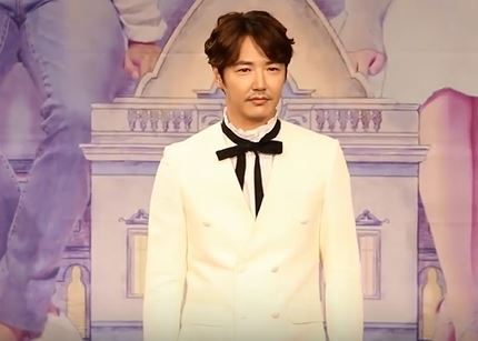 Shopaholic Louis press conference